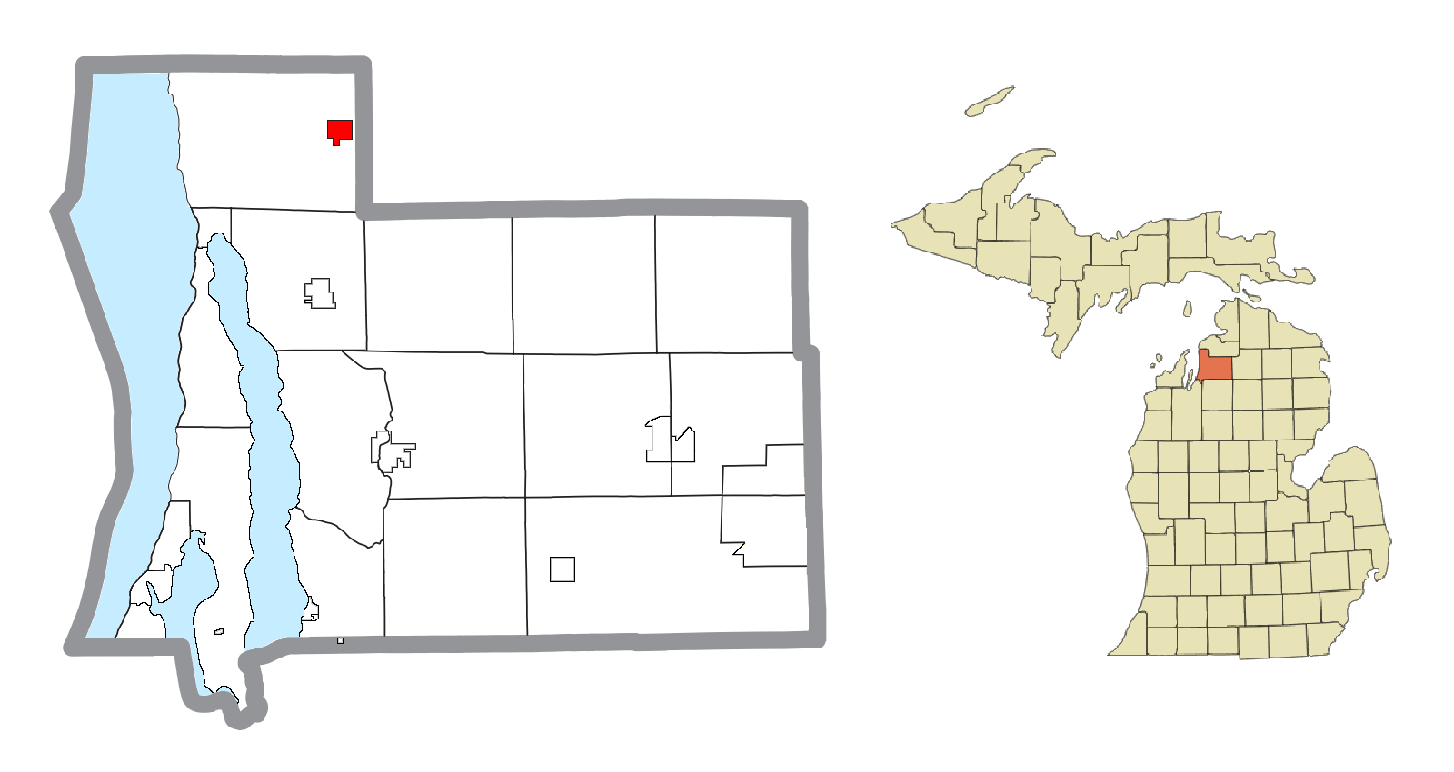 Ellsworth, MI